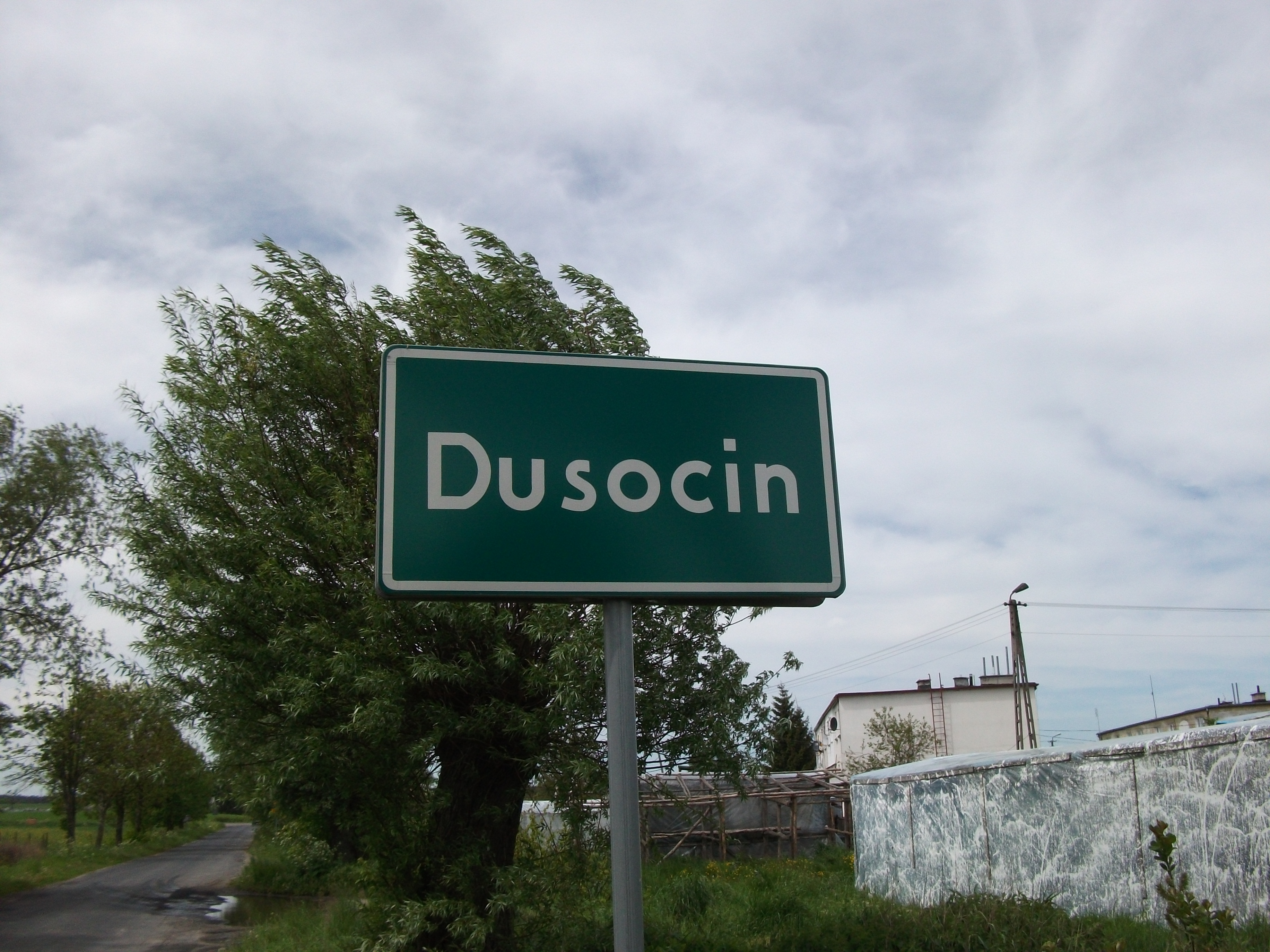 Dusocin village in Poland